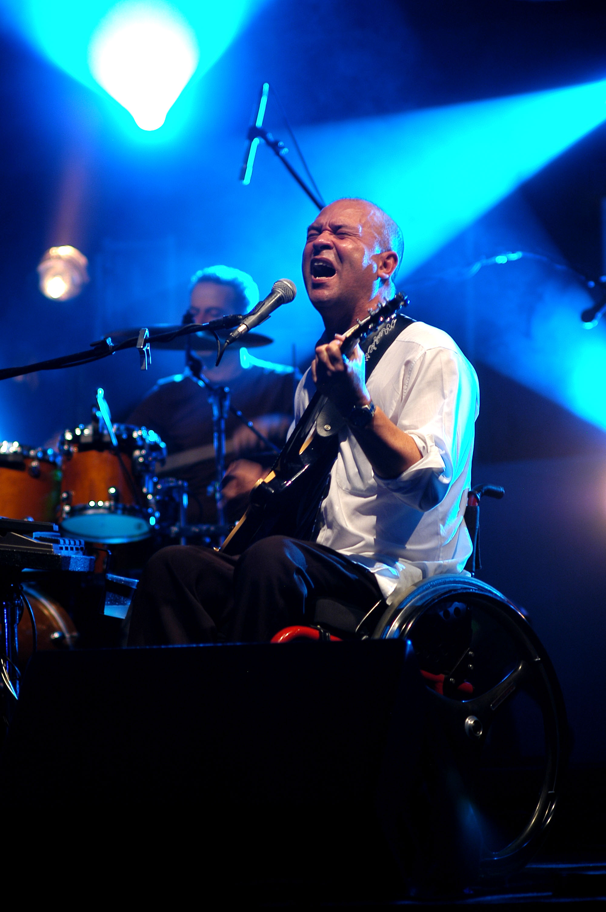 Herbert Vianna